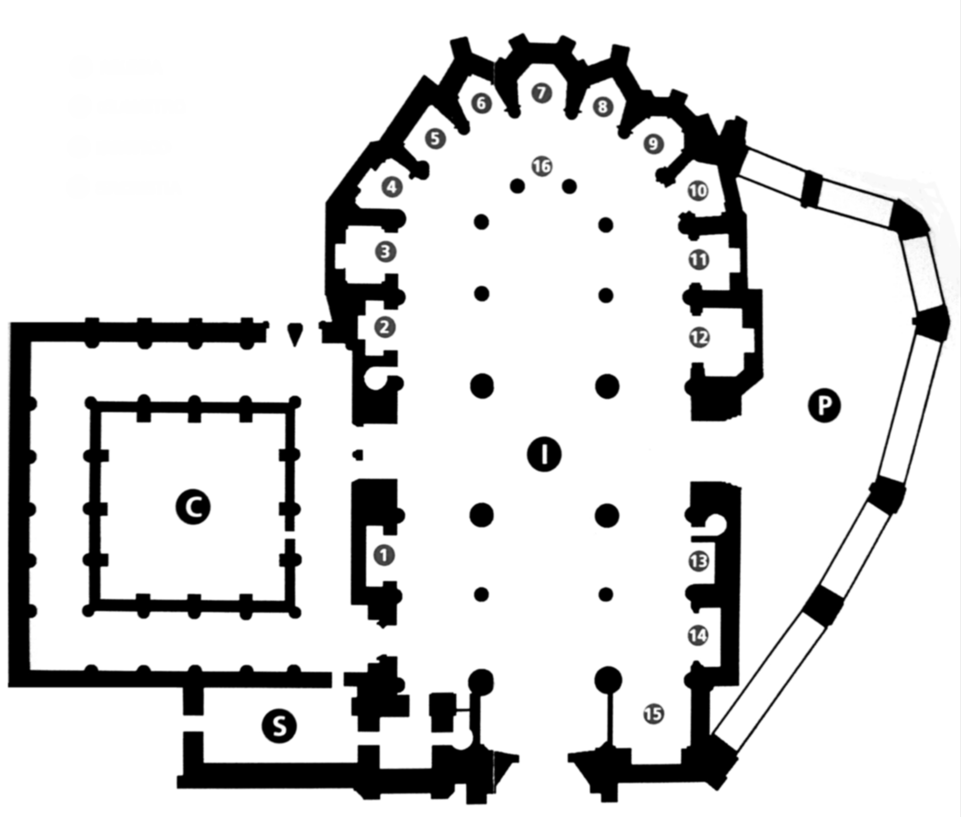 Plano de la Catedral de Santiago de Bilbao